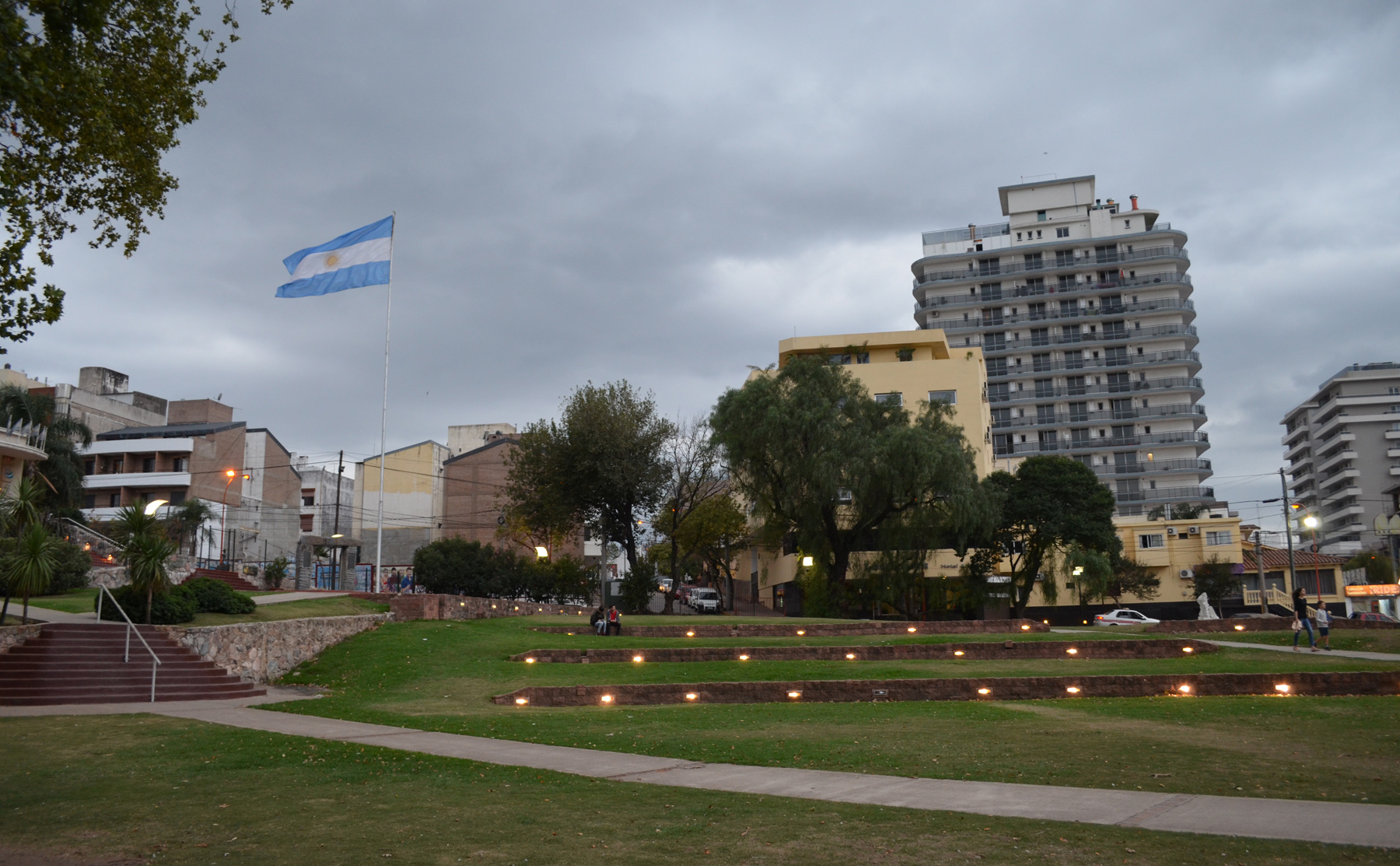 Villa Carlos Paz city downtown. Argentina